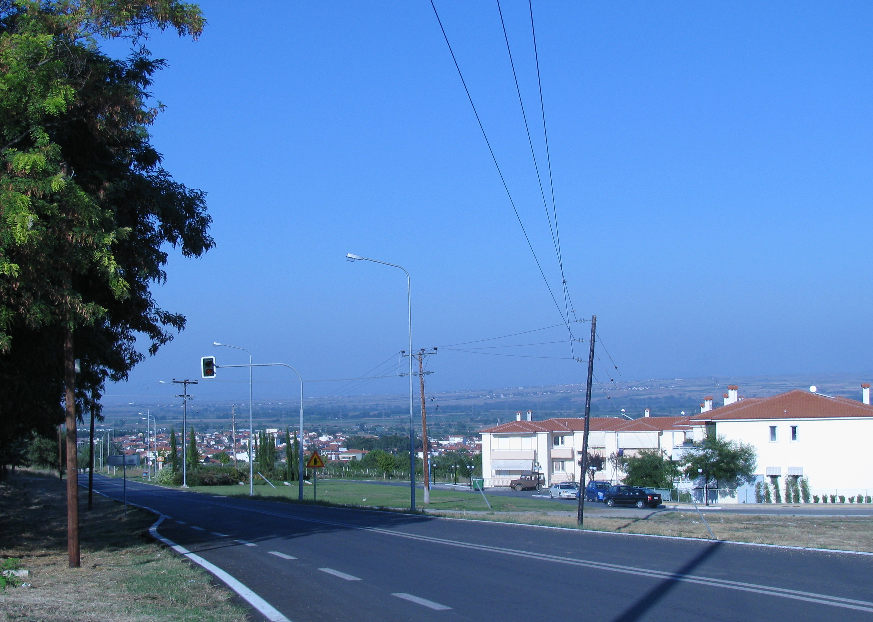 Village of Kufalia/Kufalovo, Aegean Macedonia, Greece